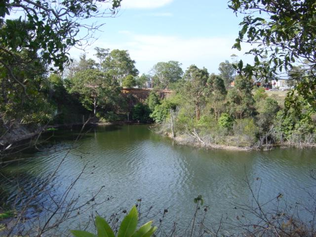 Kirrawee Brick Pit taken from southern fence